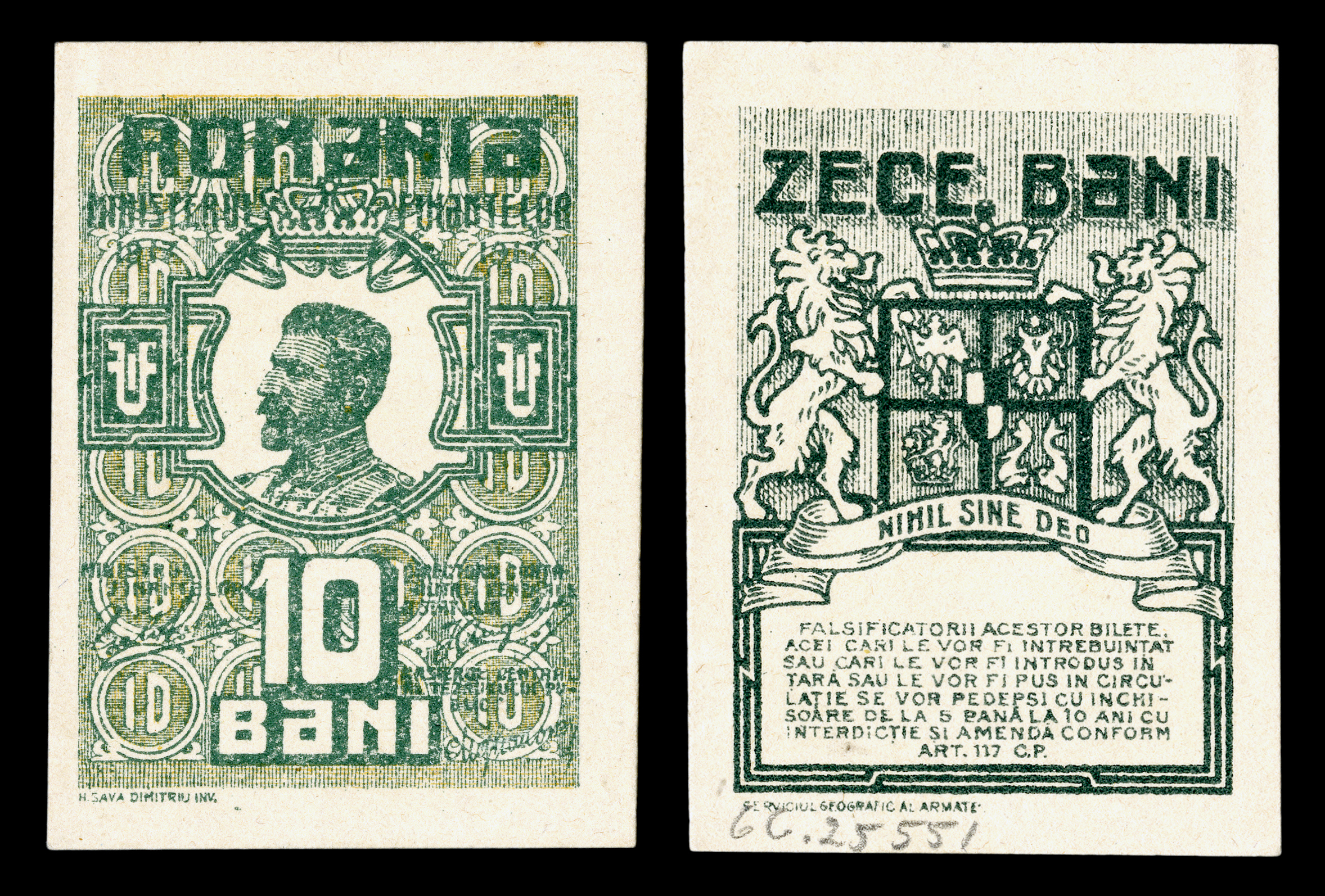 Kingdom of Romania, Emergency WWI issue, 10 Bani (1917), depicting Ferdinand I of Romania.